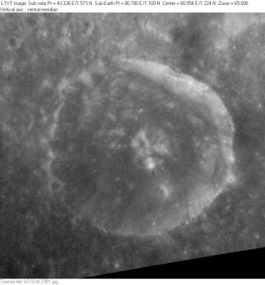 AS-16-M-2901 The contrast is low because of the relatively high sun angle in this Metric Camera view from Apollo 16.